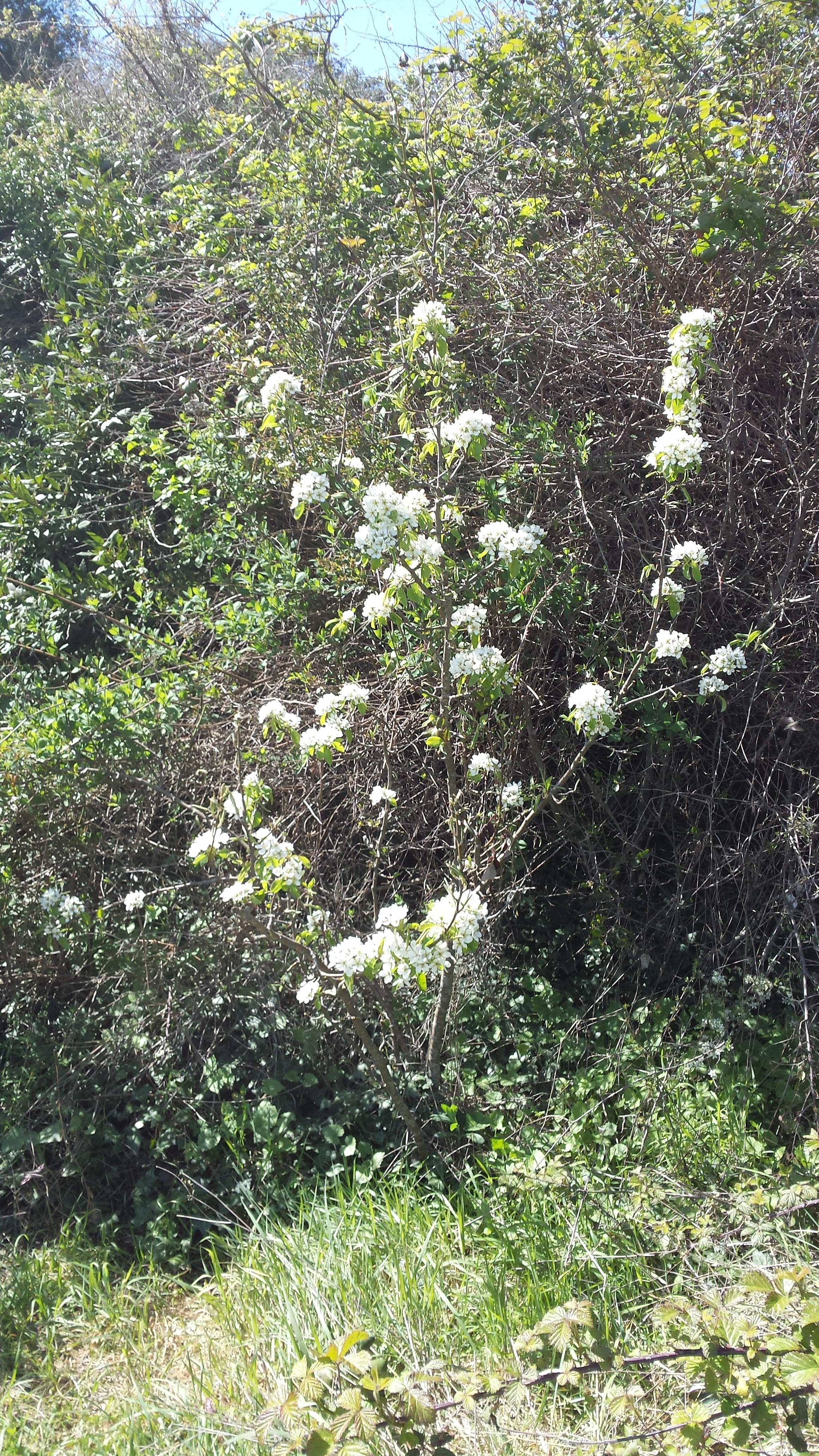 Pear tree cultivar Conference flowering, Castelltallat, Catalonia